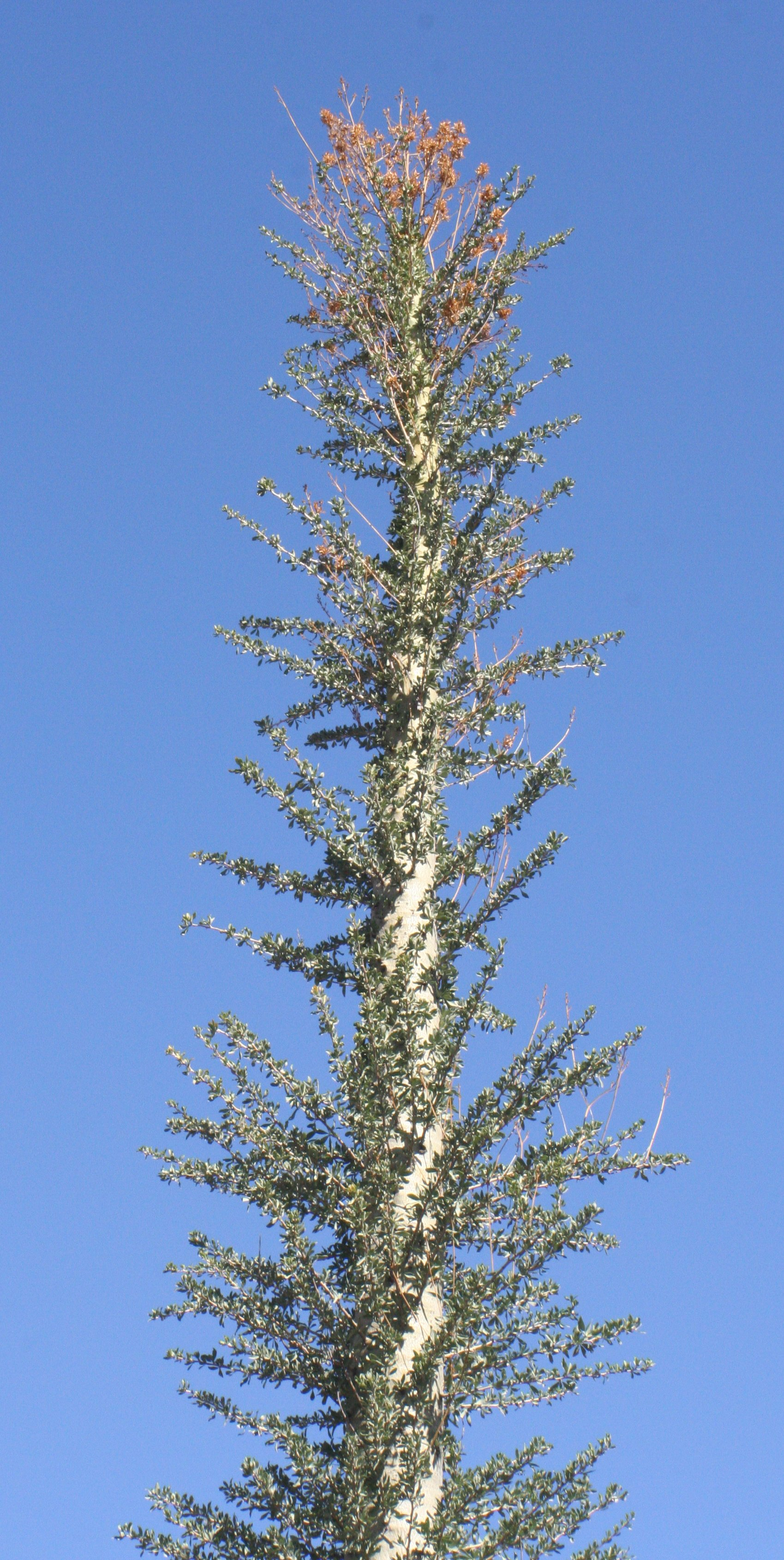 Top of a Boojum Tree (Fouquieria columnaris); Ocotillo family (Fouquieriaceae); native to Baja California & N. Mexico. Photographed at the Desert Botanical Garden, Phoenix, AZ.